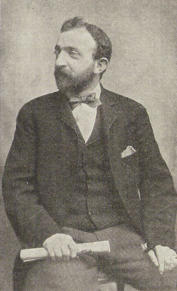 Photograph of Welsh-language poet John Richard Williams (Tryfanwy) (1867-1924), in Ar Fin y Traeth (Cwmni y Cyhoeddwyr Cymreig, Caernarfon, 1910), a collection of poems by him. He lost his sight and hearing in his youth.